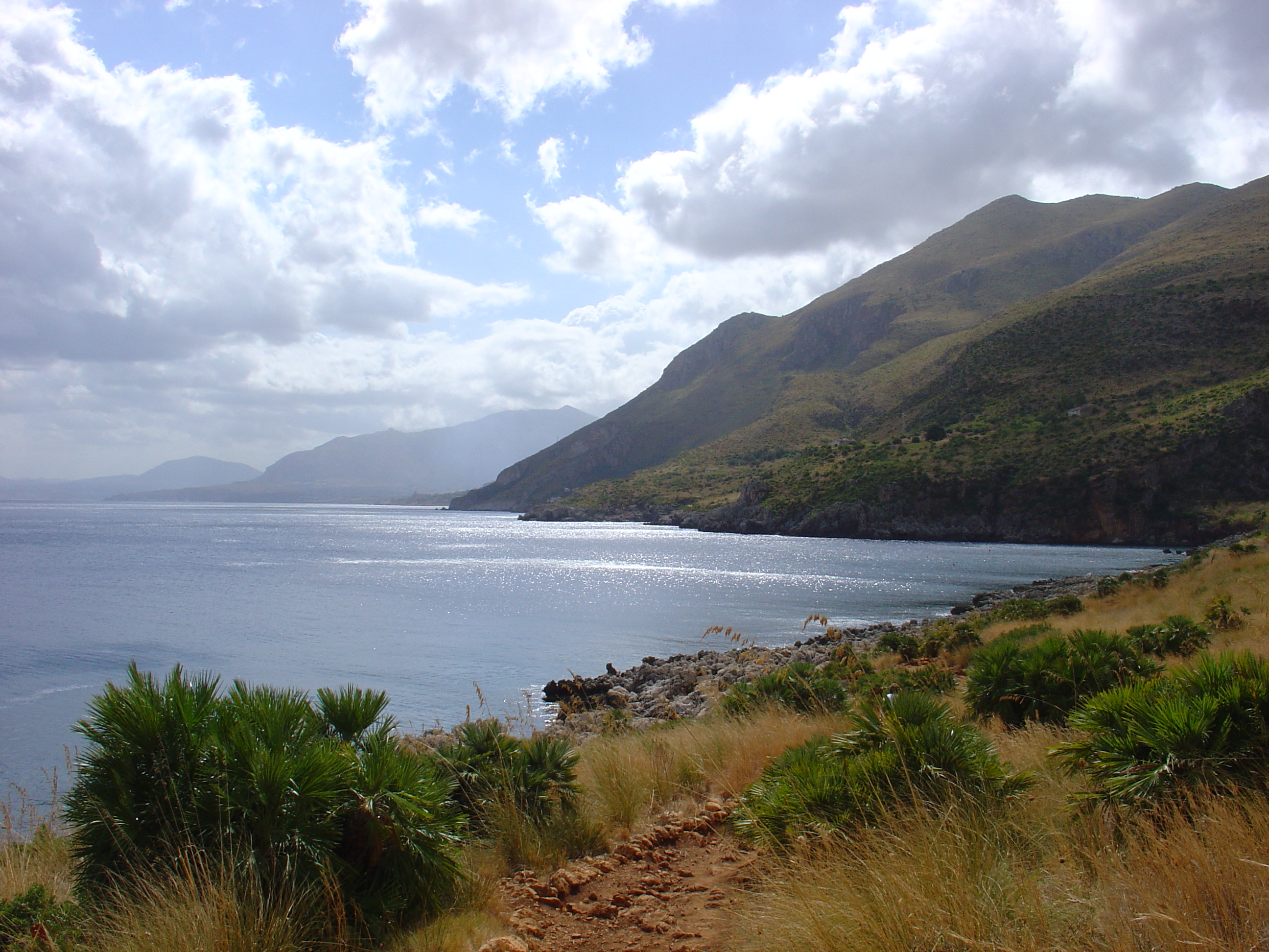 Zingaro-Naturpark (Sizilien)/Zingaro Natural Reserve (Sicily)